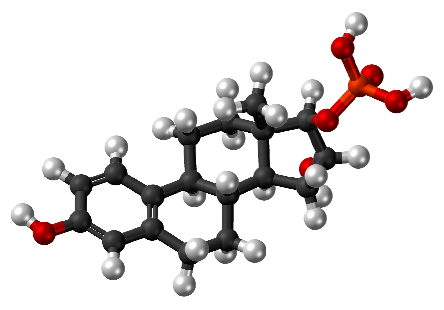 Ball-and-stick model of the estriol phosphate molecule, an estrogen contained in the structure of polyestriol phosphate. Color code: Carbon, C: black Hydrogen, H: white Oxygen, O: red Phosphorus, P: orange